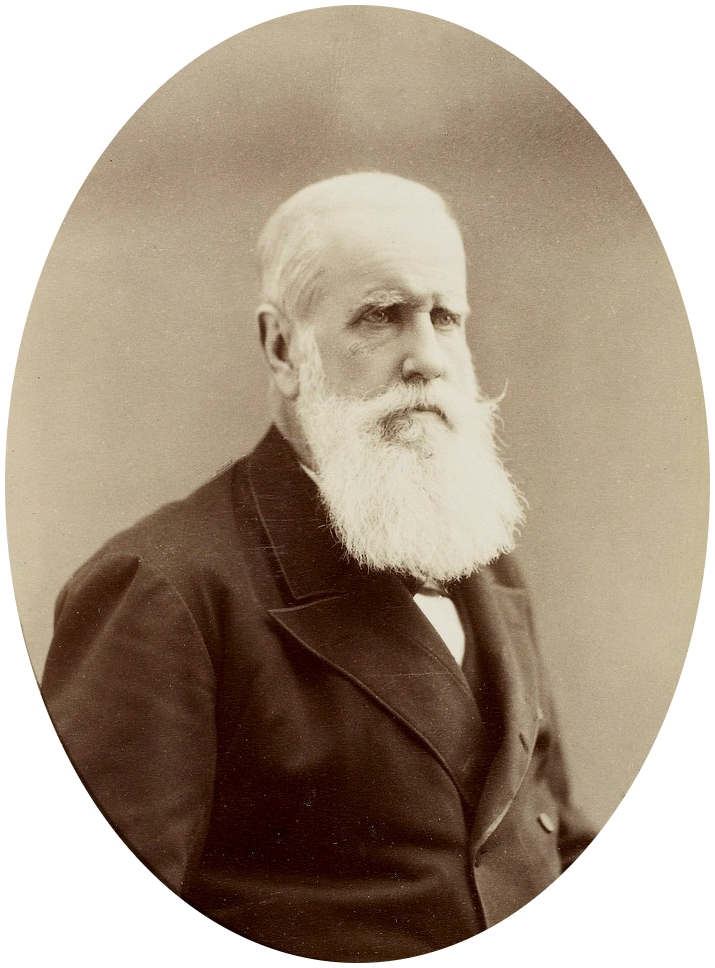 Emperor Pedro II of Brazil around age 61, c.1887